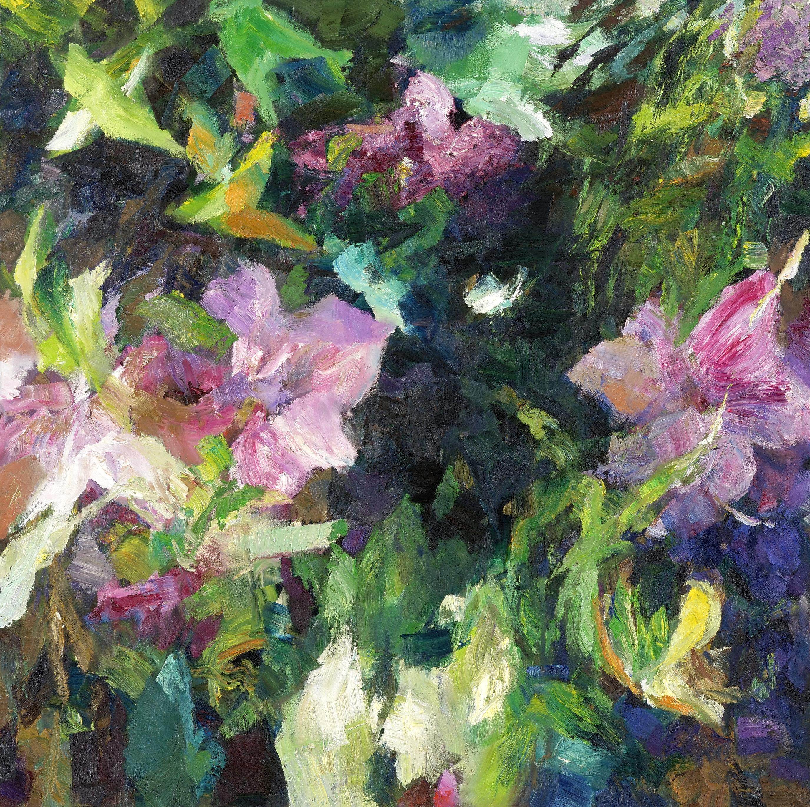 Oil painting by Gerard Prent: “Zonder titel (tuin)” No Title (garden) 2 x 2 meter.